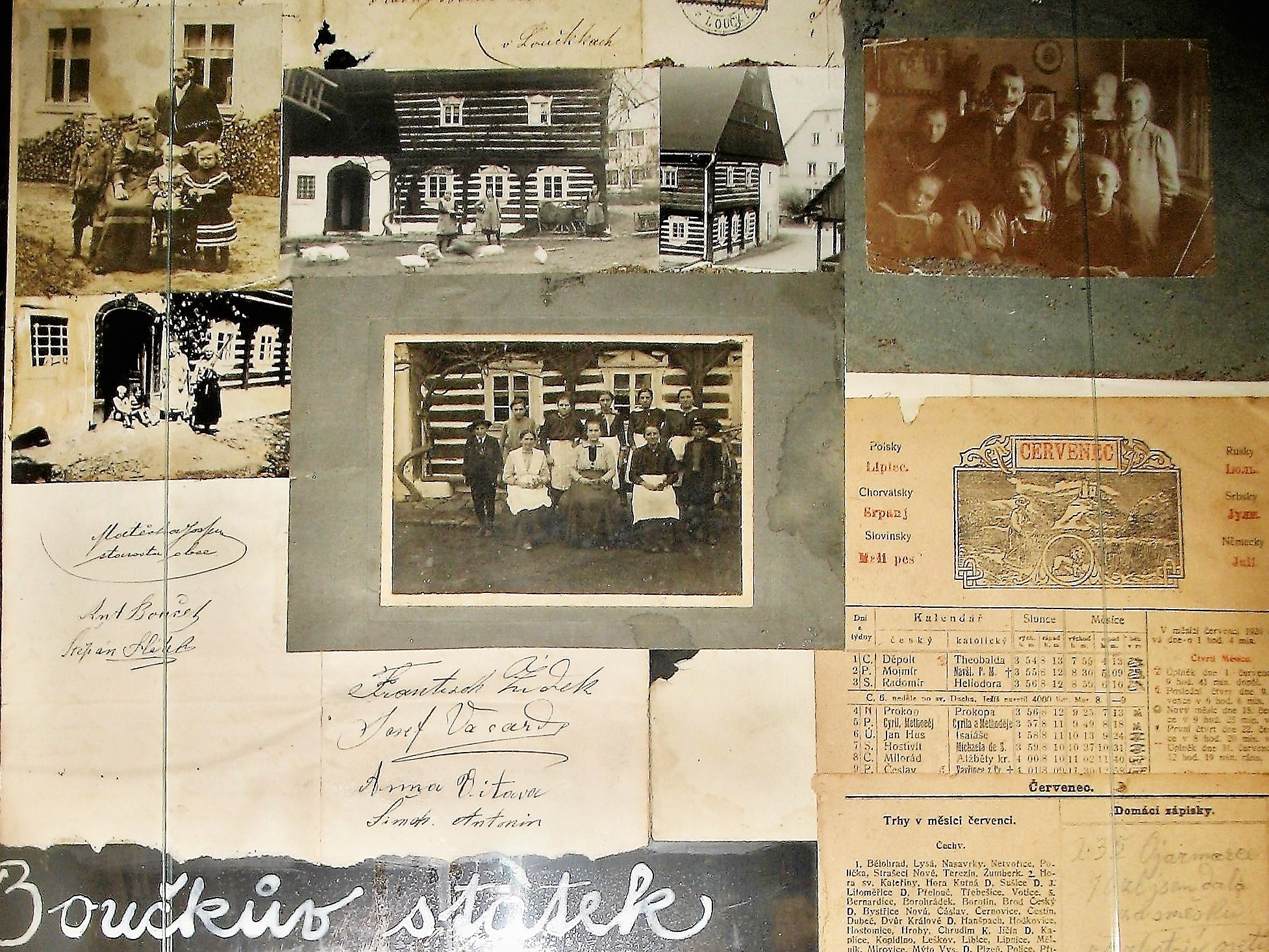 Josef Jíra Gallery in Malá Skála, Czech Republic